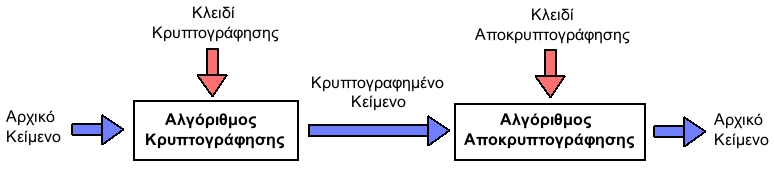 Encryption and decryption system.